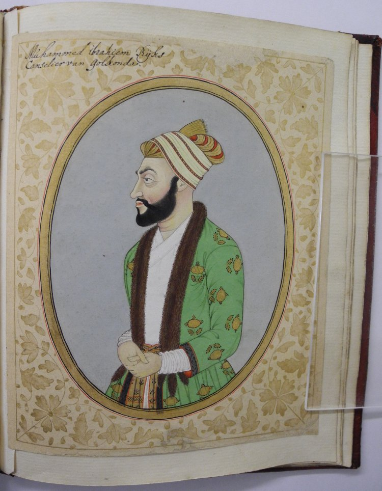 (ruler; royal/imperial; Indian; Male; 1720; ruled) Album leaf. Portrait. Muḥammad ʿIbráhím. On paper.